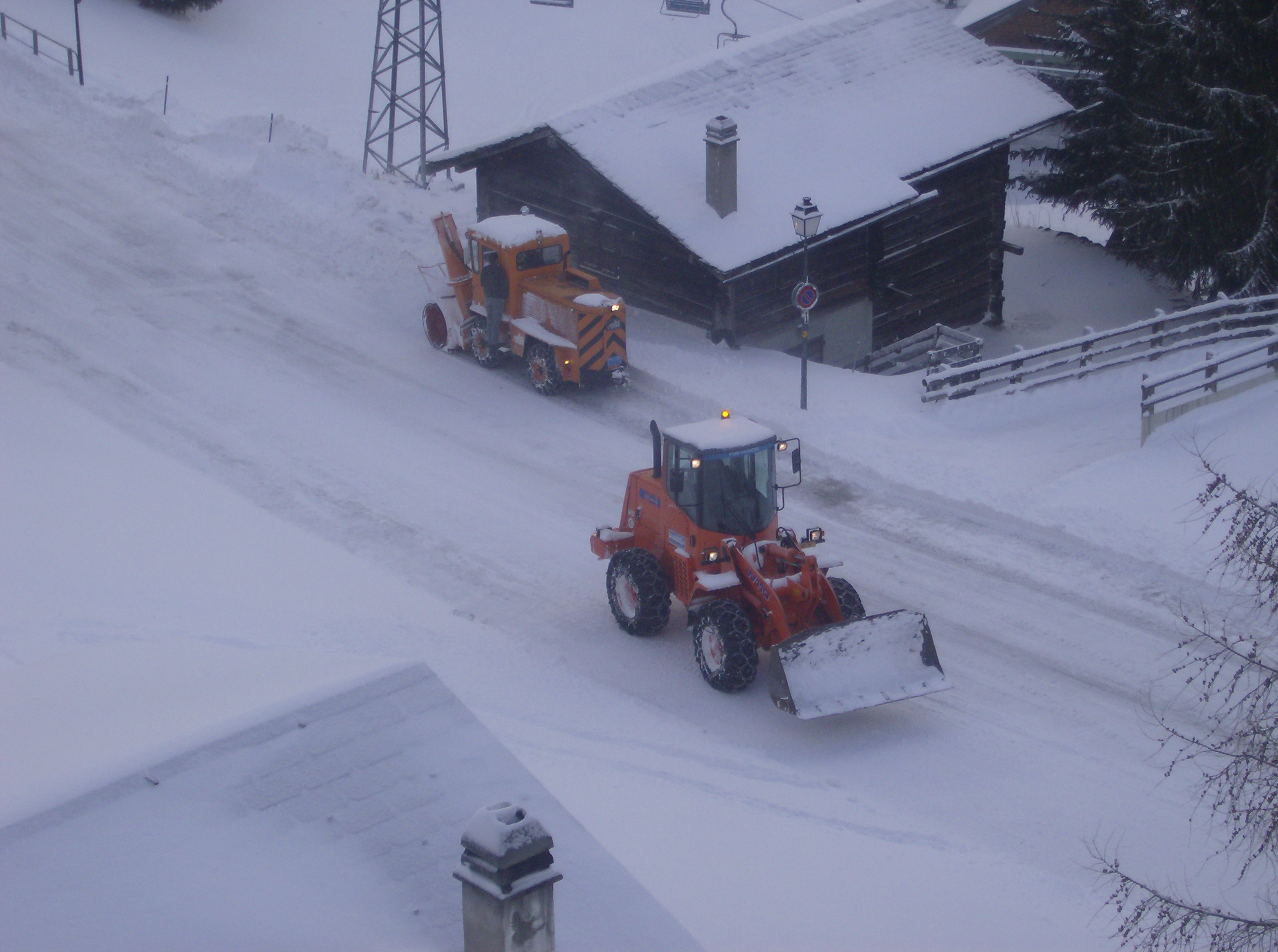 Two snowwipers near Riddes, Wallis (Switzerland).